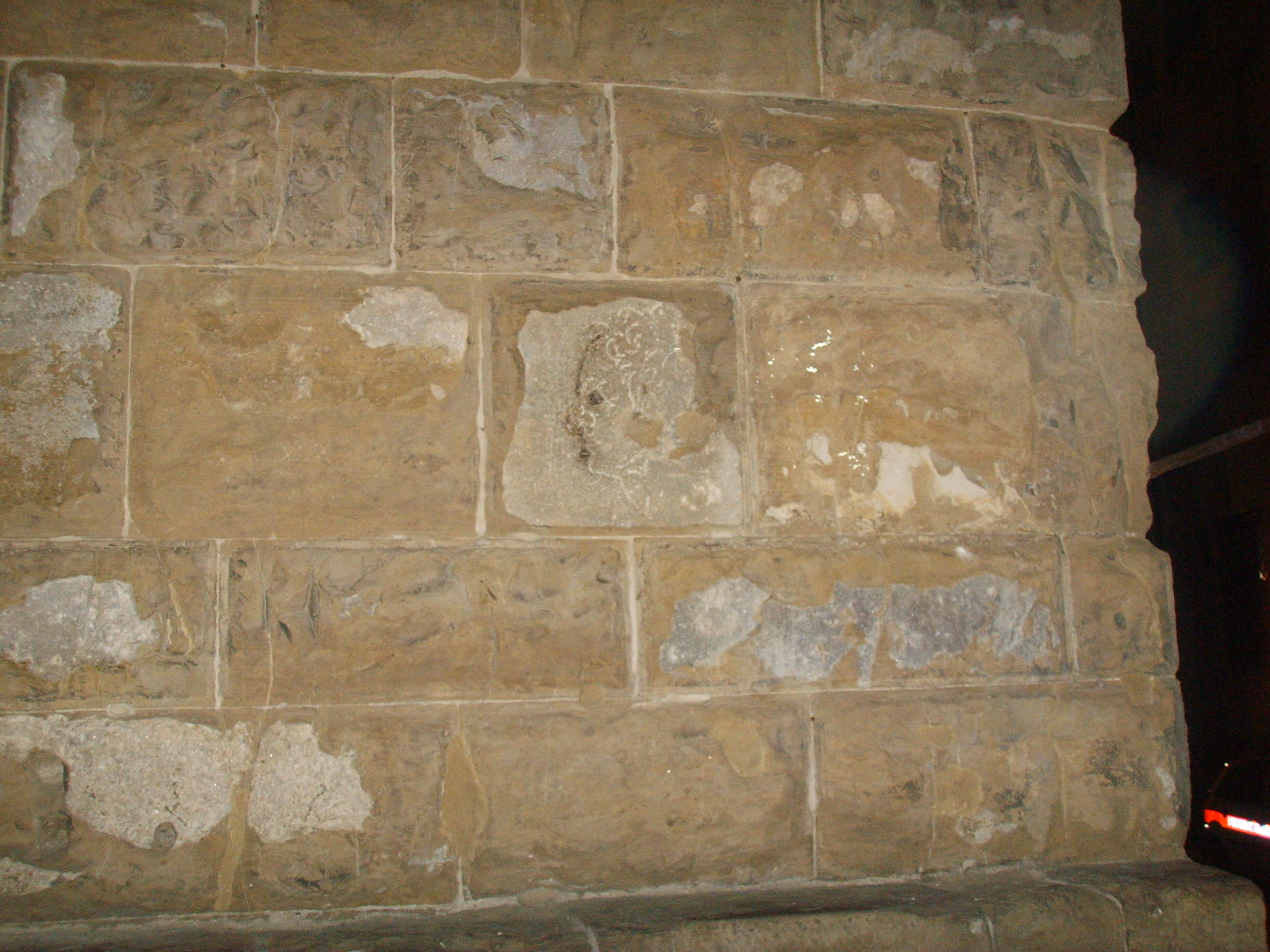 Palazzo Vecchio, face sculpted on the façade, from Florence, Italy